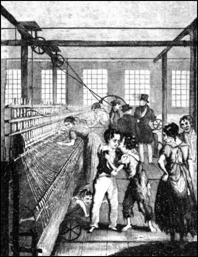 A cotton mill scene, from Frances Trollope's Michael Armstrong: Factory Boy